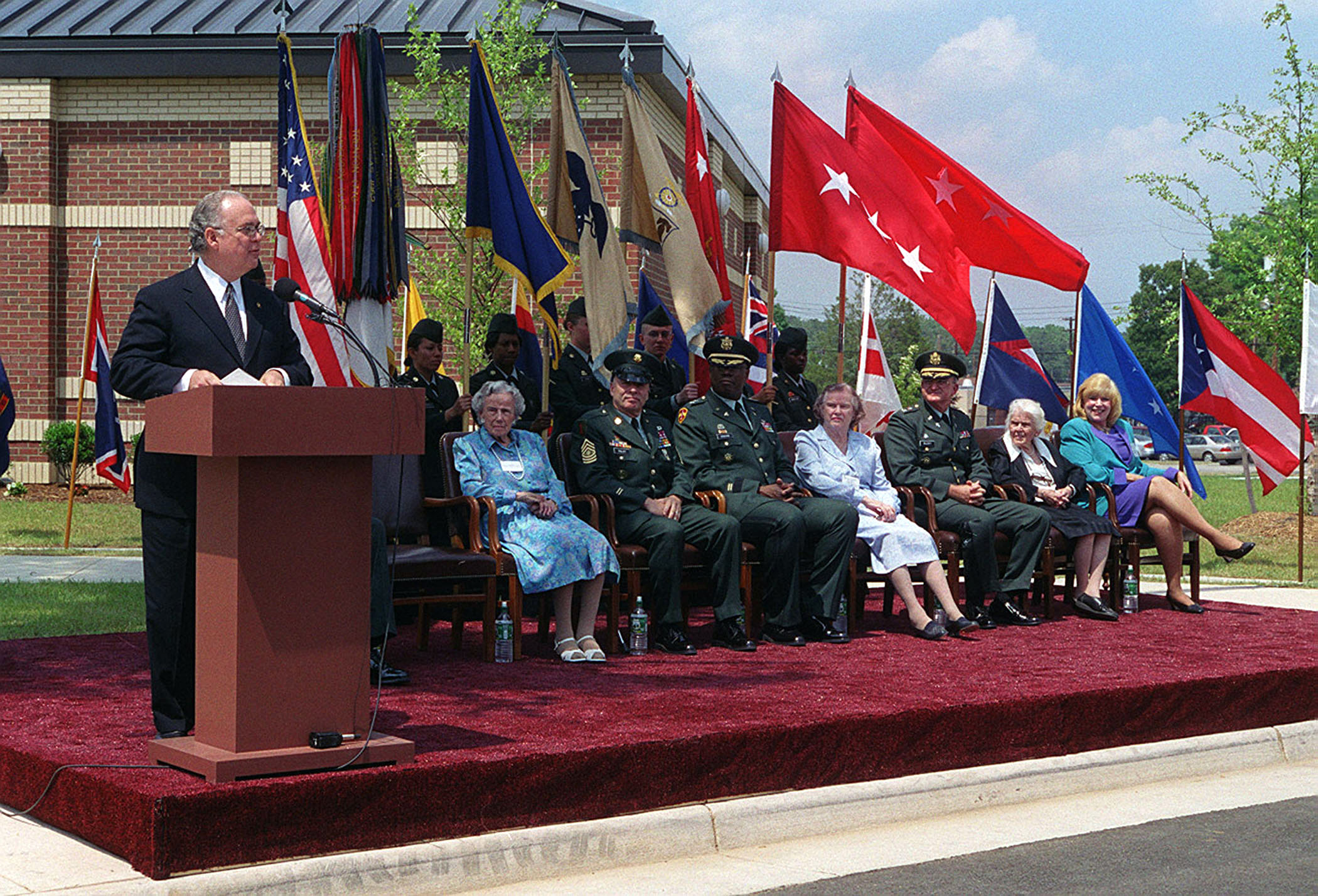 Acting Secretary of the Army The Honorable Joseph W. Westphal, PH.D makes a speech during the Opening and Dedication Ceremony for the Army Womens Museum at Fort Lee, Virginia